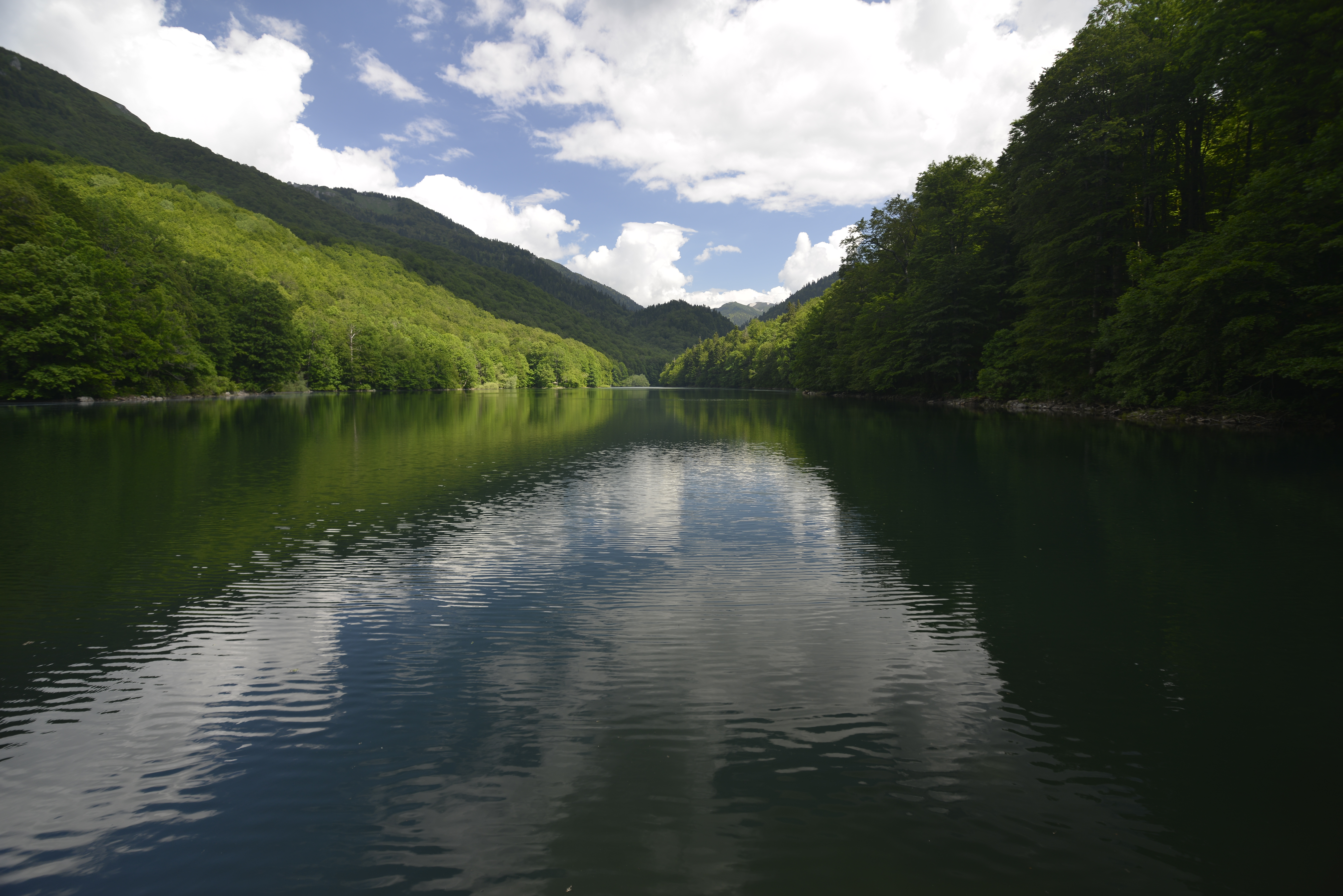 Beauty of National Park Biogradska Gora, Montenegro